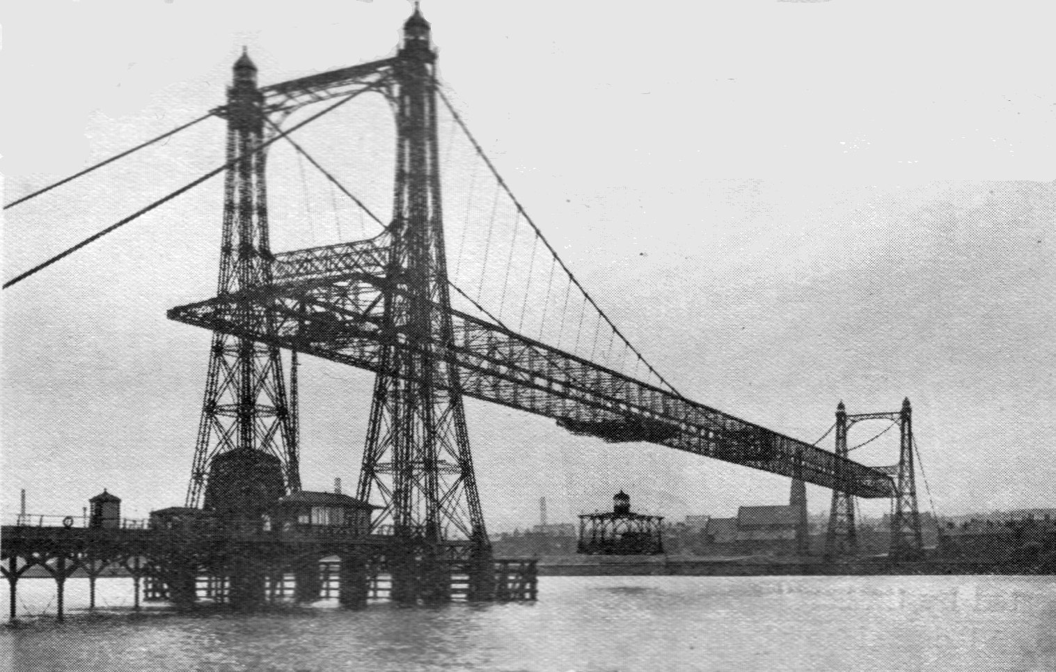 Transporter Bridge, Runcorn Crosses the River Mersey and the Manchester Ship Canal and has a span of 1,000 feet. Photo: Valentine & Sons, Ltd.